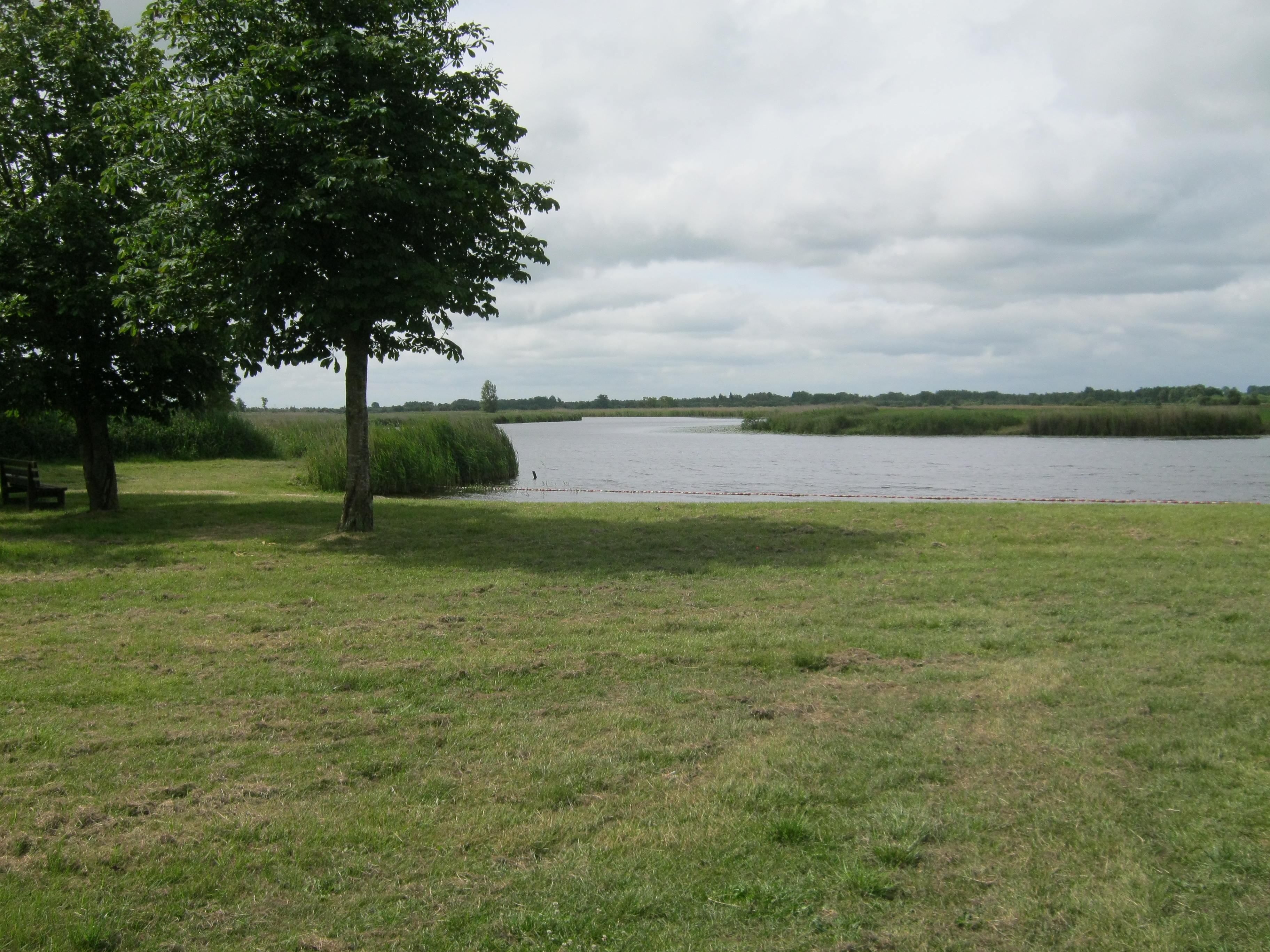 Alte Sorge bei Meggerdorf (von der Badestelle aus)